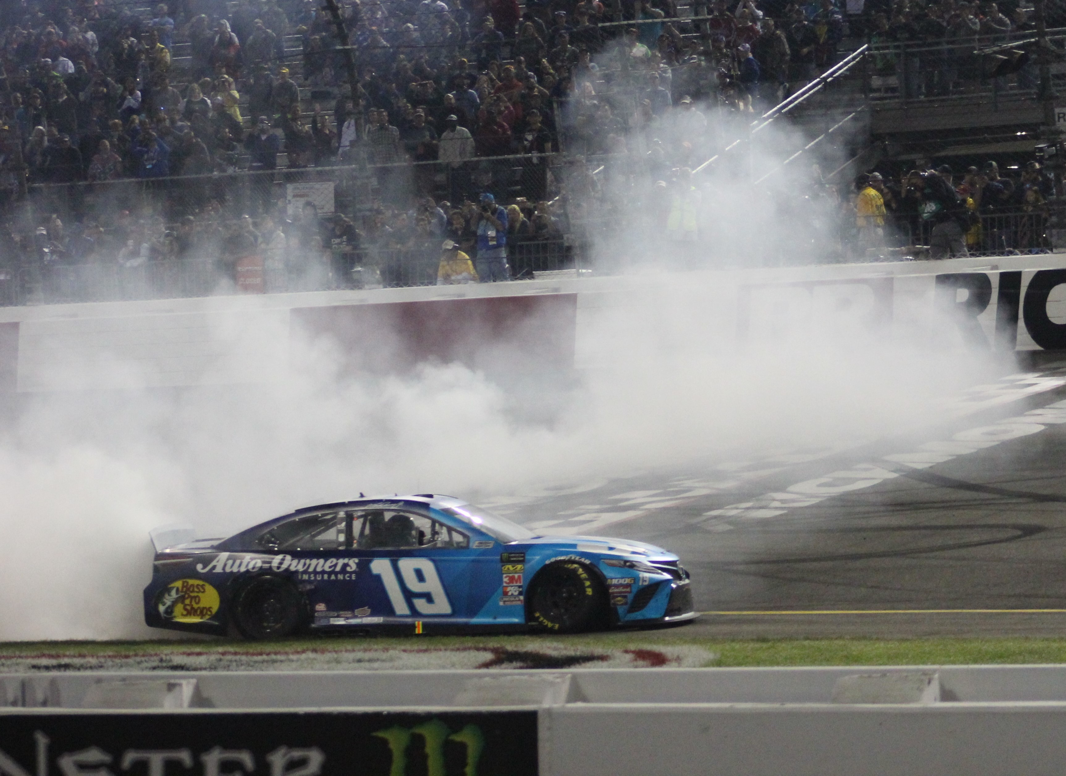 2019 Toyota Owners 400